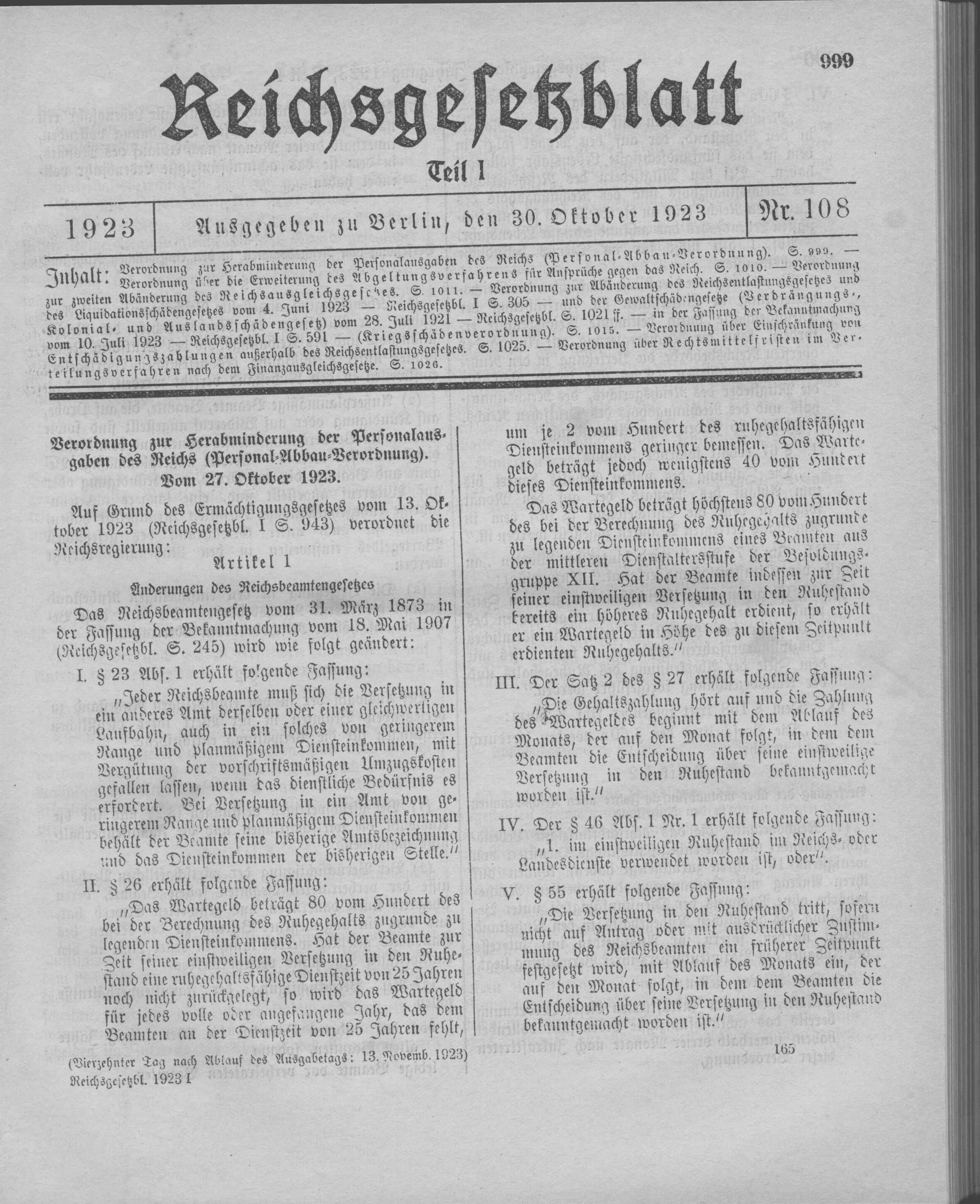 Scan from the Imperial Law Gazette of Germany, 1923, part 1